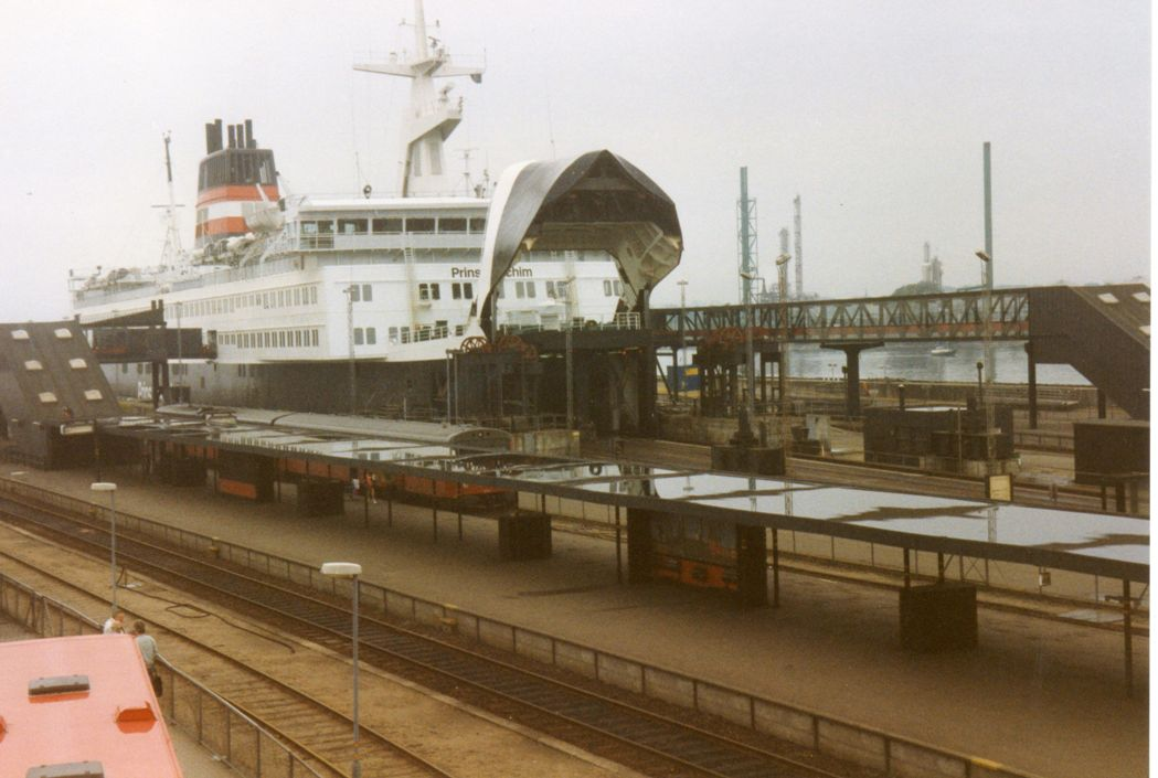 Trainferry Prins Joachim arrives in Nyborg, Denmark 1991 or 1992